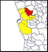 Municipality of Nambuangongo